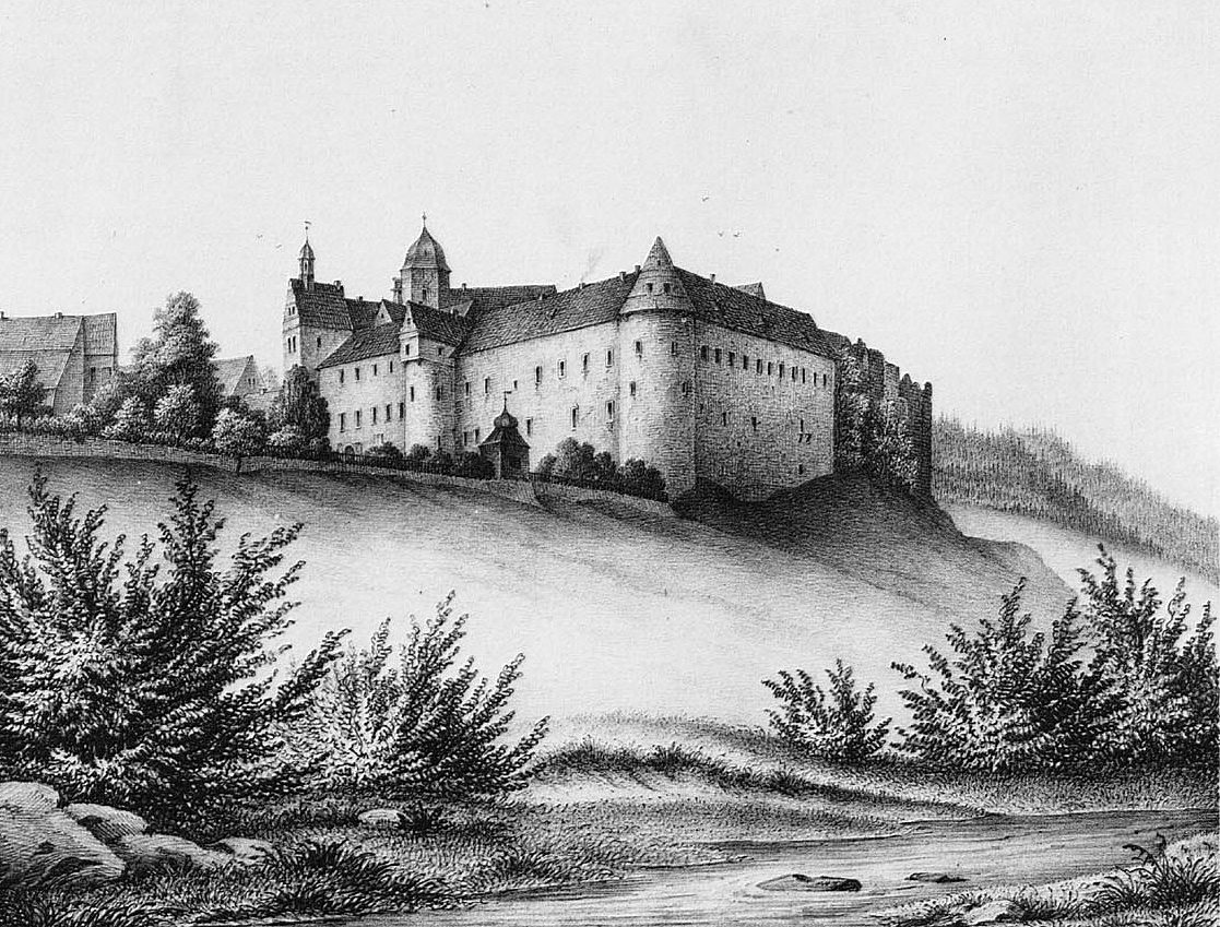 This image shows Lauenstein castle in the Ore Mountains.